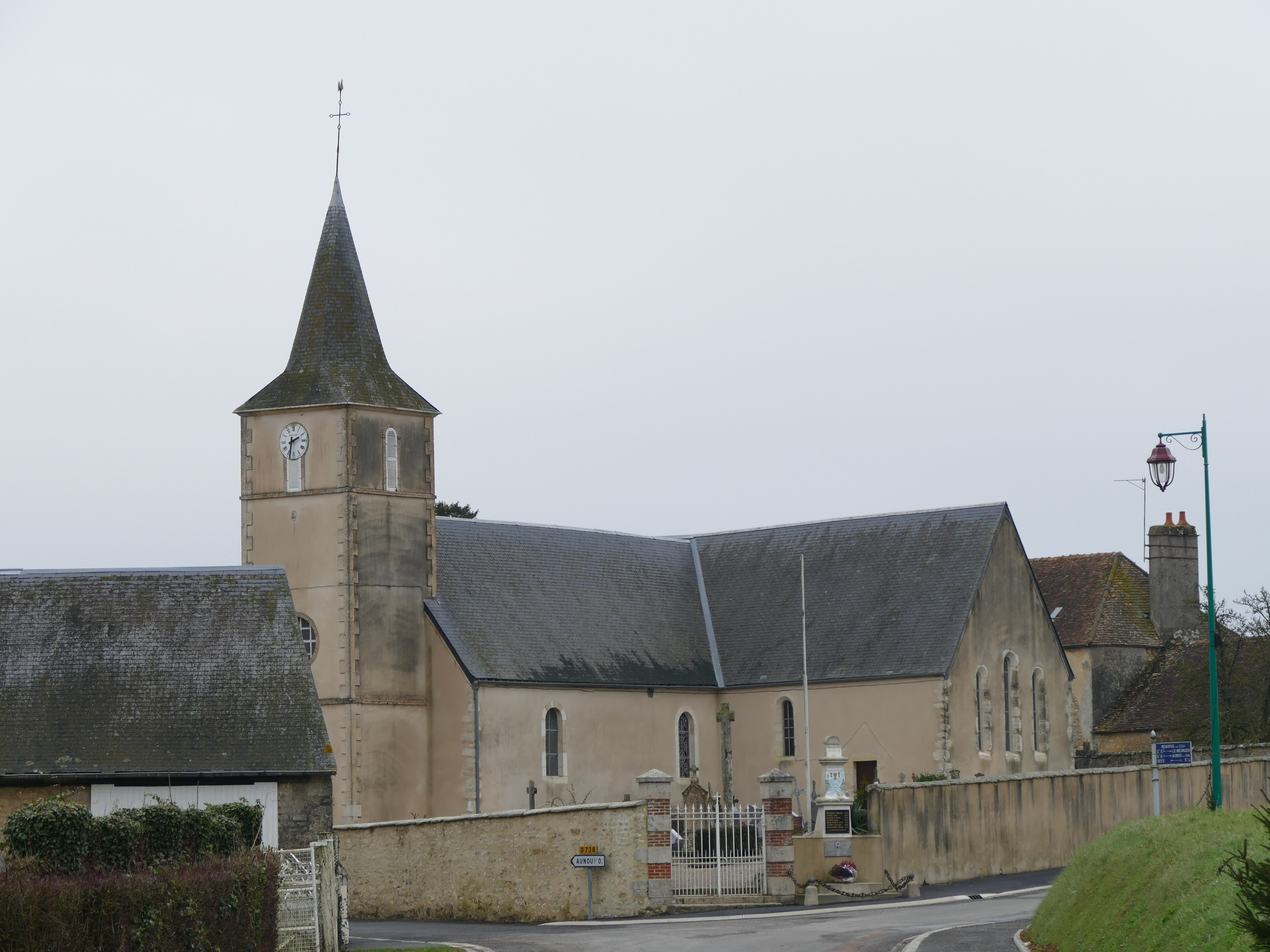 Our Lady's church in Neauphe-sous-Essai (Orne, Normandie, France).